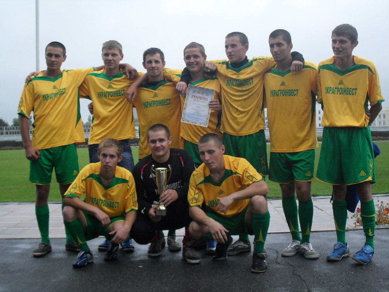 Amateur Football Team “Seym” from Kuzky